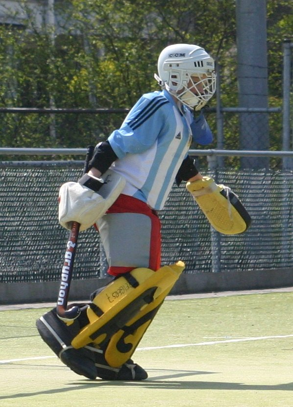 Keeper of Las Leonas, they are Argentina's national women's field hockey team.